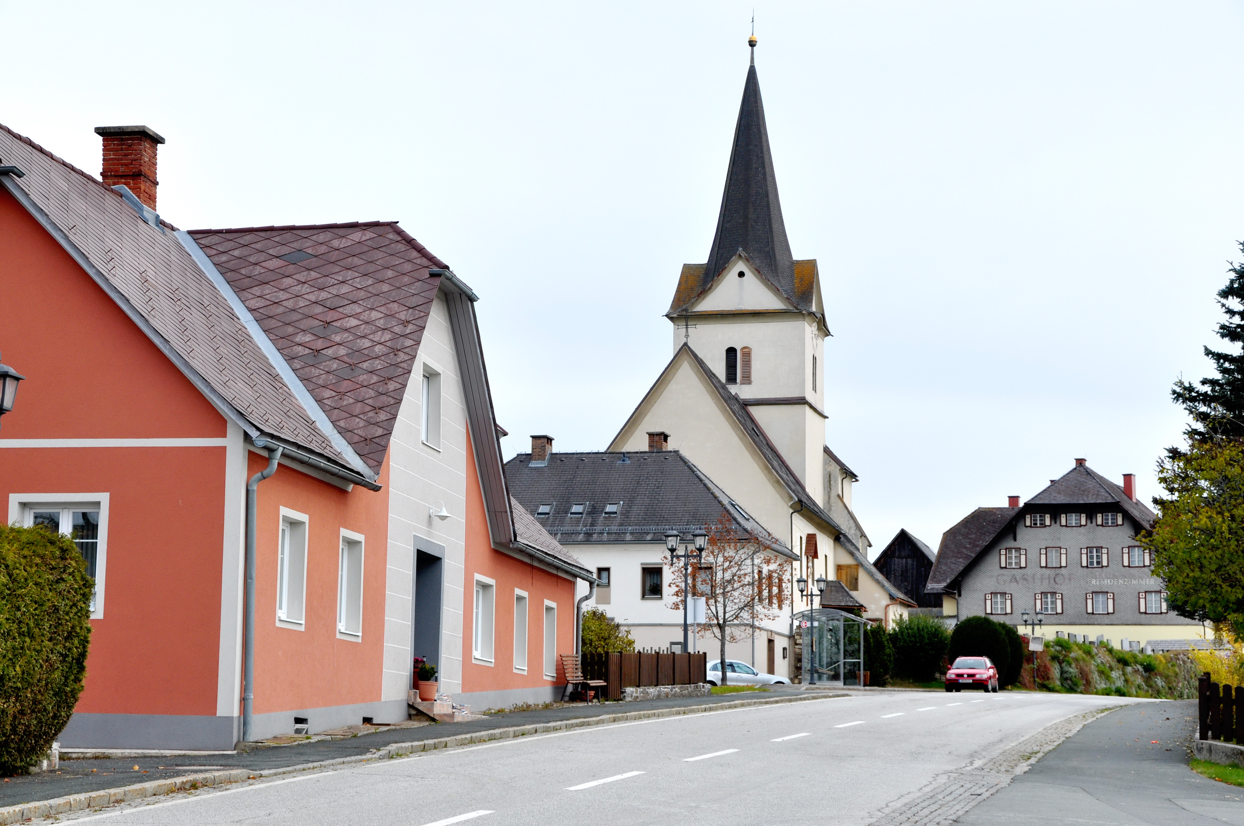 Parish church Holy Nikolaus in Preitenegg, municipality Preitenegg, district Wolfsberg, Carinthia / Austria / EU